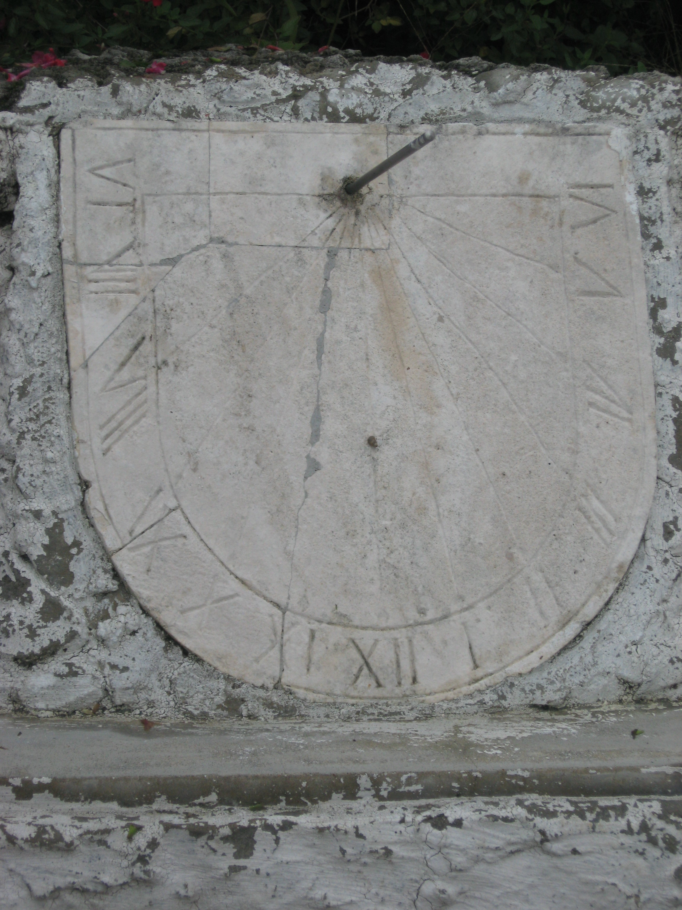 Alpedriz, Portugal, historical city belonging to the Military Order of Aviz, since 13th century until 1834, Relógio de Sol (sundial), former part of an old chapel(destroyed between 1940-1945), maybe Roman origin